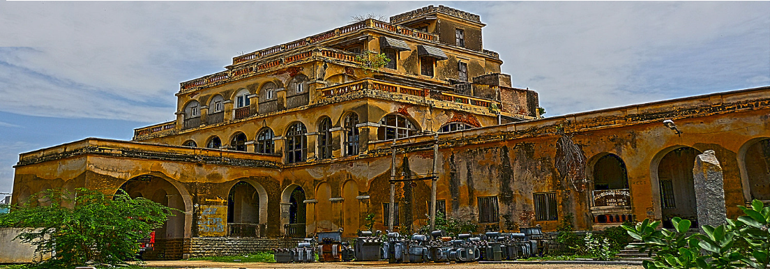 An ancient architecture, Zameendar Palace, Kuppam, Chittoor District, Andhra Pradesh, India